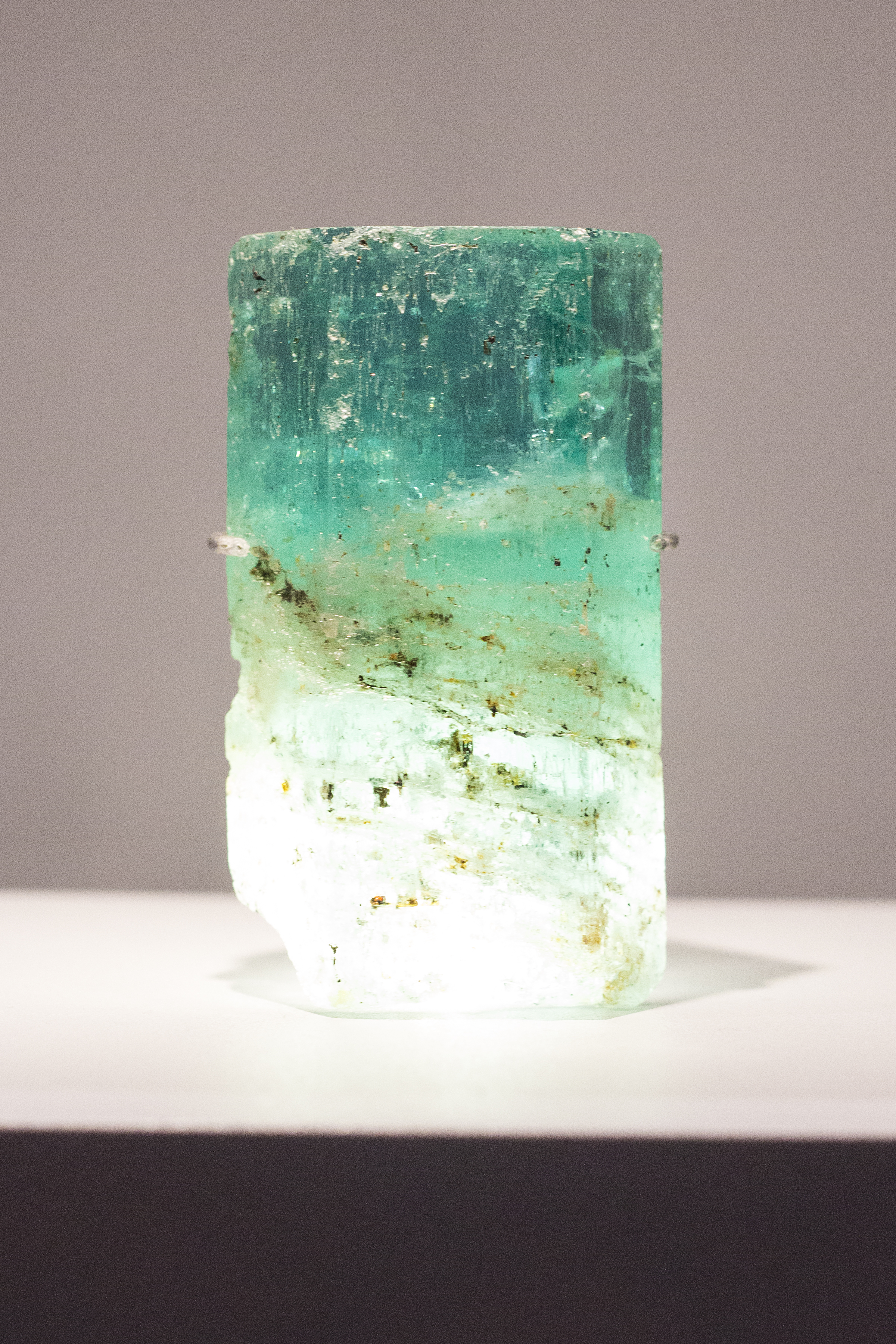 A beryl from the "museum d'histoire naturelle" galerie de minéralogie, Paris, France. The stone is from Madagascar.